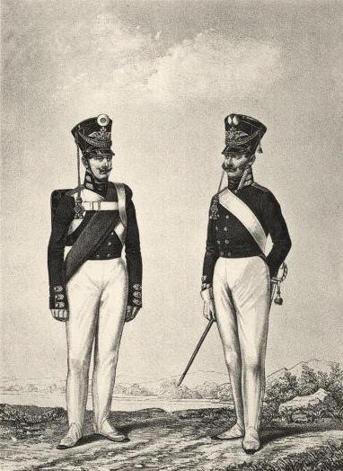 Gunner and Sergeant artillery of the Guard footartillery, Russland 1809-1810.